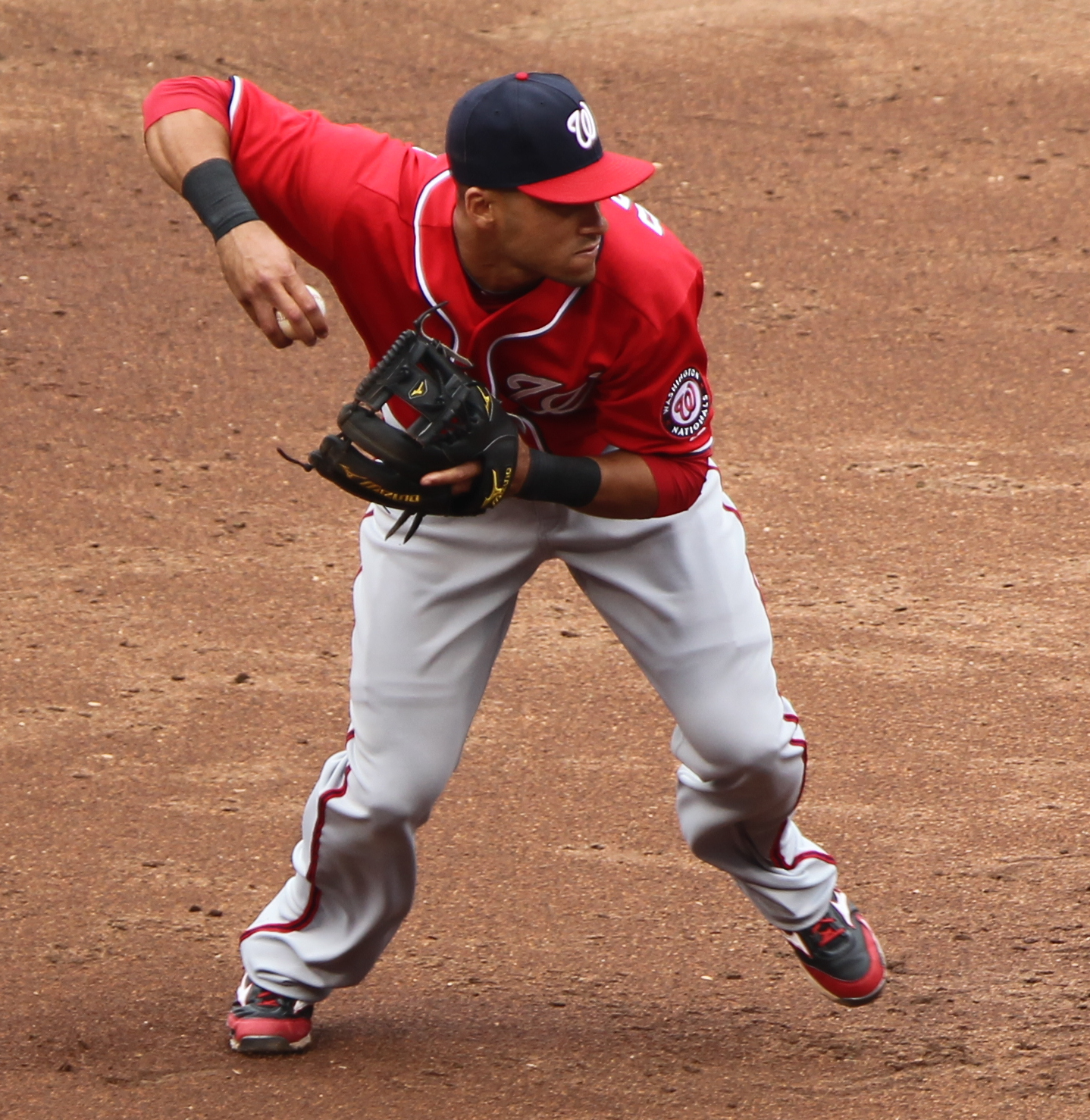 Washington Nationals at Baltimore Orioles May 22, 2011.